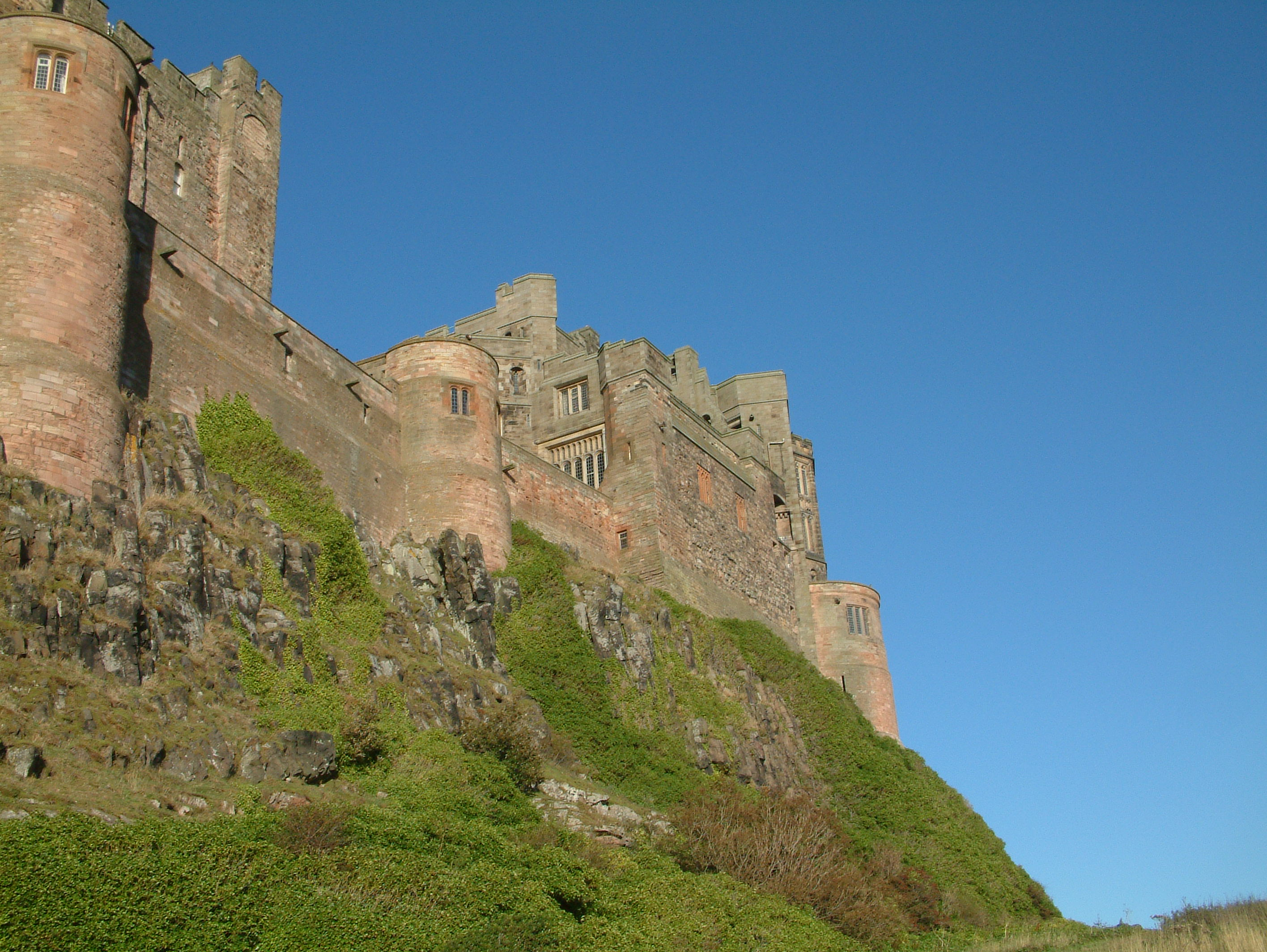 side wall of Bamburgh Castle - UK